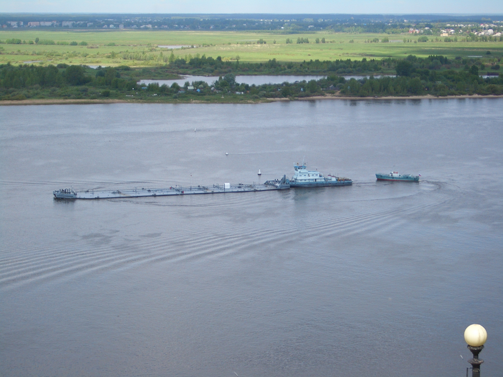 A Volga barge off Nizhny Novgorod. Photo taken from near the Chkalov Monument. The meadows of the Borsky district in the background.